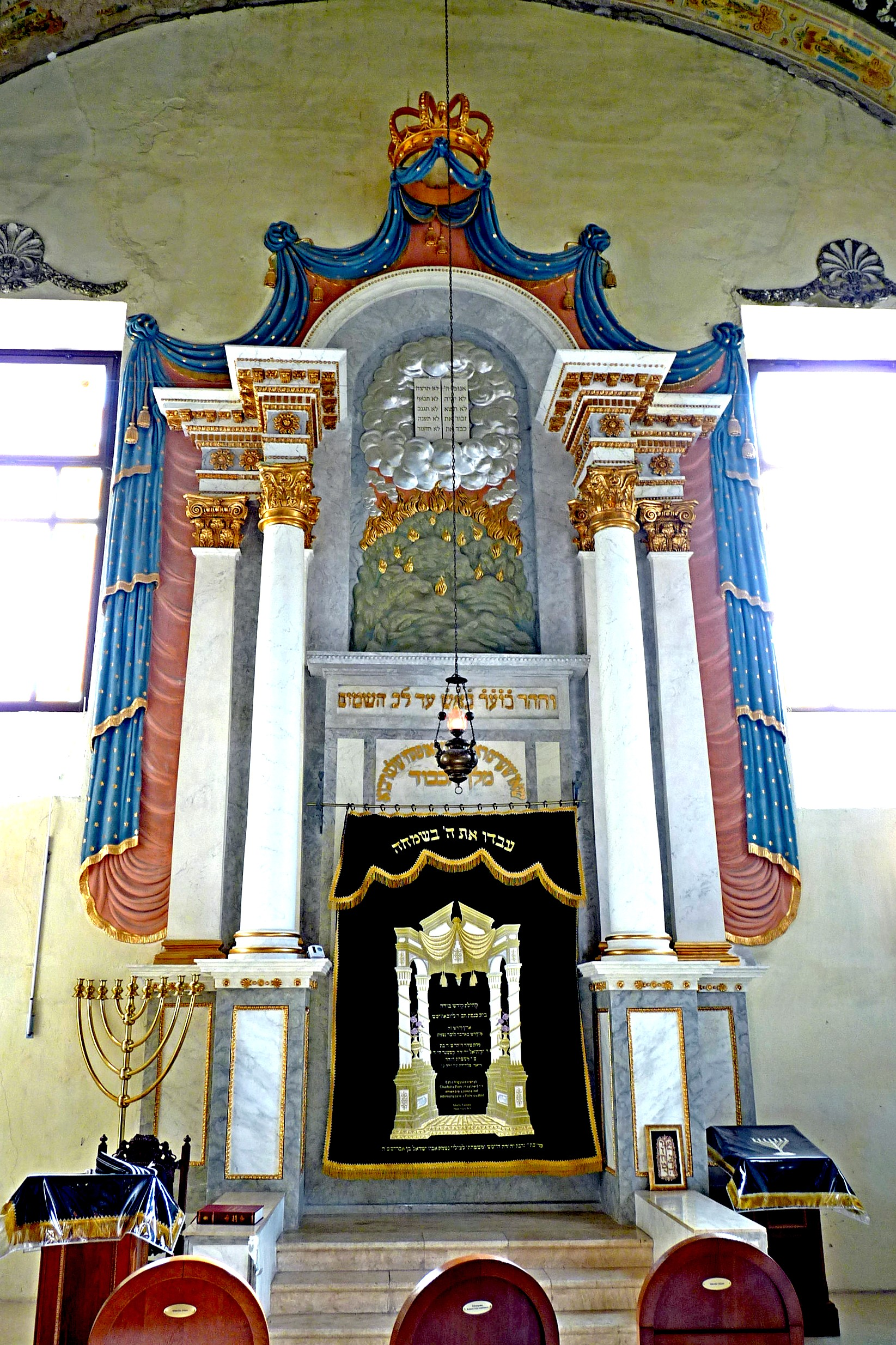 The Torah ark (Holy Ark, Aron Kodesh).